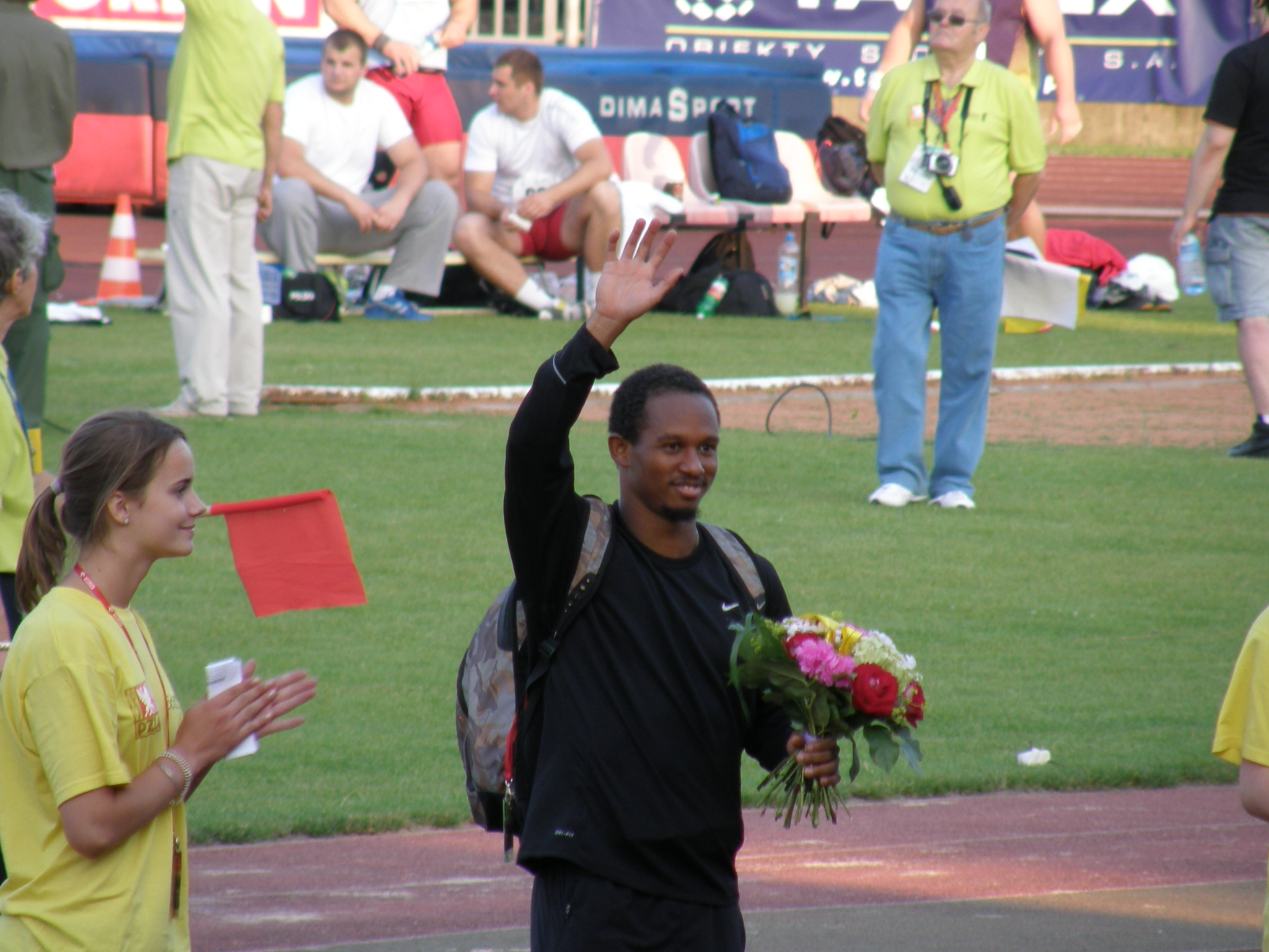 Michael Frater; 2010 Janusz Kusocinski Memorial in Warsaw (Poland)